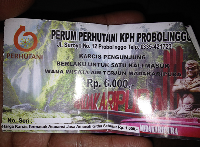 tiket masuk Air Terjun Madakaripura